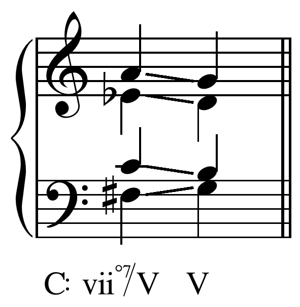 Secondary leading-tone chord: viio7/V - V in C major.